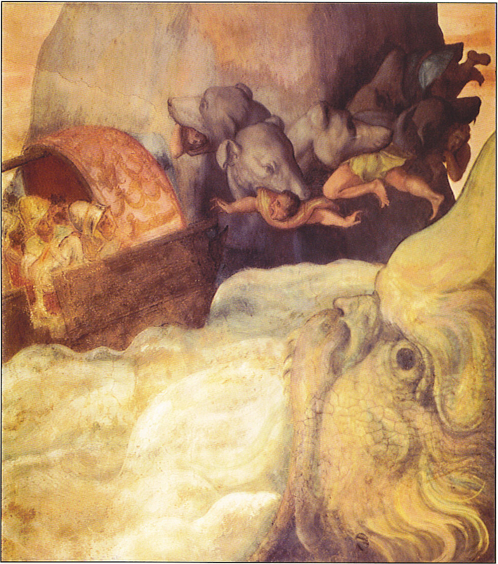 painting of Odysseus's boat passing between the six-headed monster Scylia and the whirlpool Charybdis. Scylla has plucked Five of Odysseus's men from the boat. The painting is an Italian fresco.